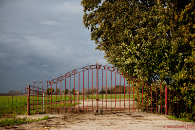 Photowork by the Dutch artist Kees Schouten. The work relates to the text above the gate of Auschwitz-Birkenau where the third letter (the B of "Arbeit macht frei") is also turned upside down.